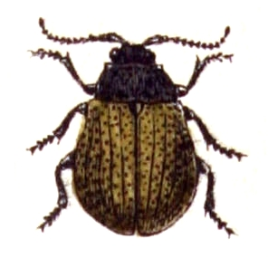 Galeruca pomonae, from Calwer's Käferbuch, Table 43, Picture 1. Taxonomy was updated to 2008, using mostly the sites Fauna Europaea and BioLib. Please contact Sarefo if the determination is wrong!